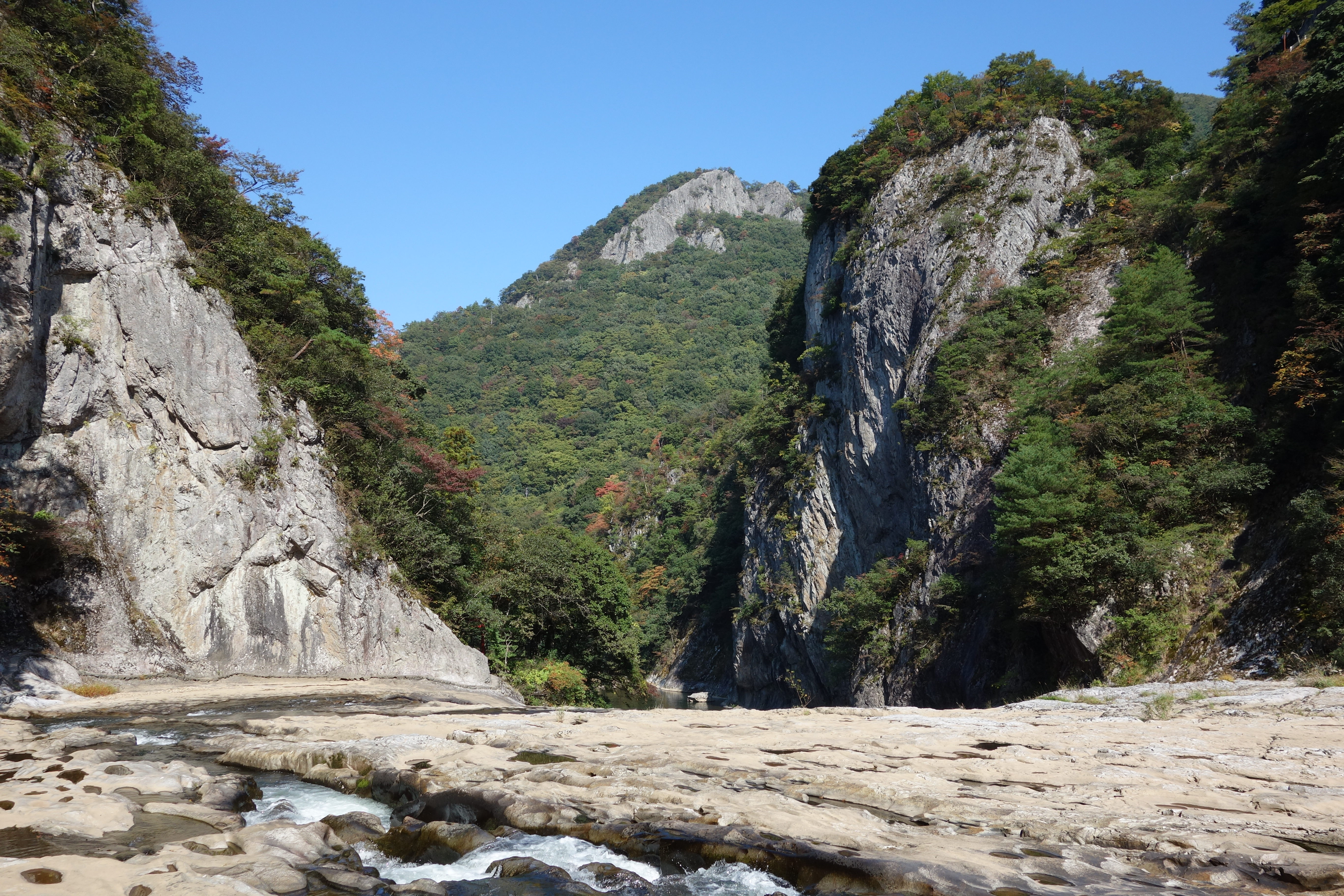 The Dangyokei valley close to the city of Unnan in the prefecture of Shimane, Japan.